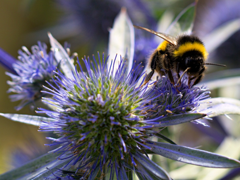 Bumblebee on Sea Holly